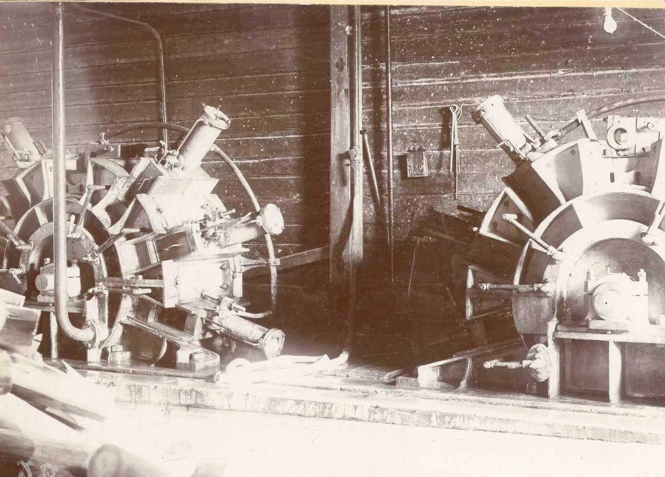 Voith grinders of Rekolankoski mechanical pulp mill in Jämsänkoski, Finland in 1901